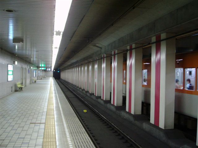 Hanshin Kobe Kosoku Line Daikai Station platforms